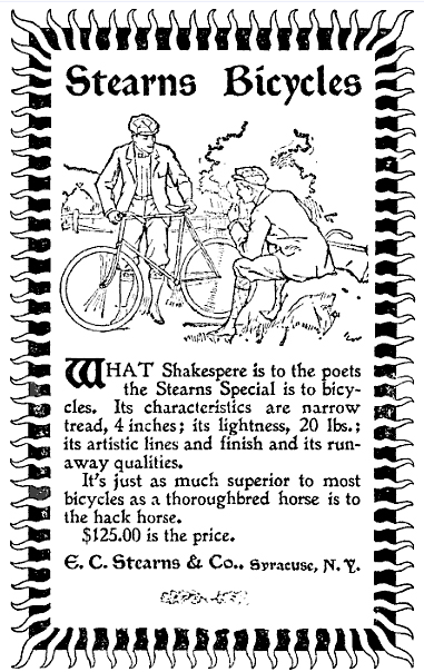 Stearns Bicycles 1896 - Syracuse, New York